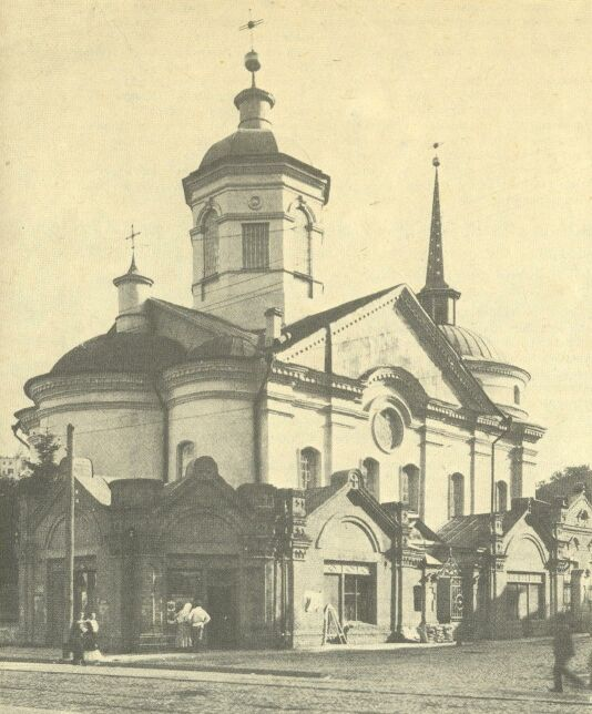 Pyrohoshcha Church of the Mother of God in Podil.